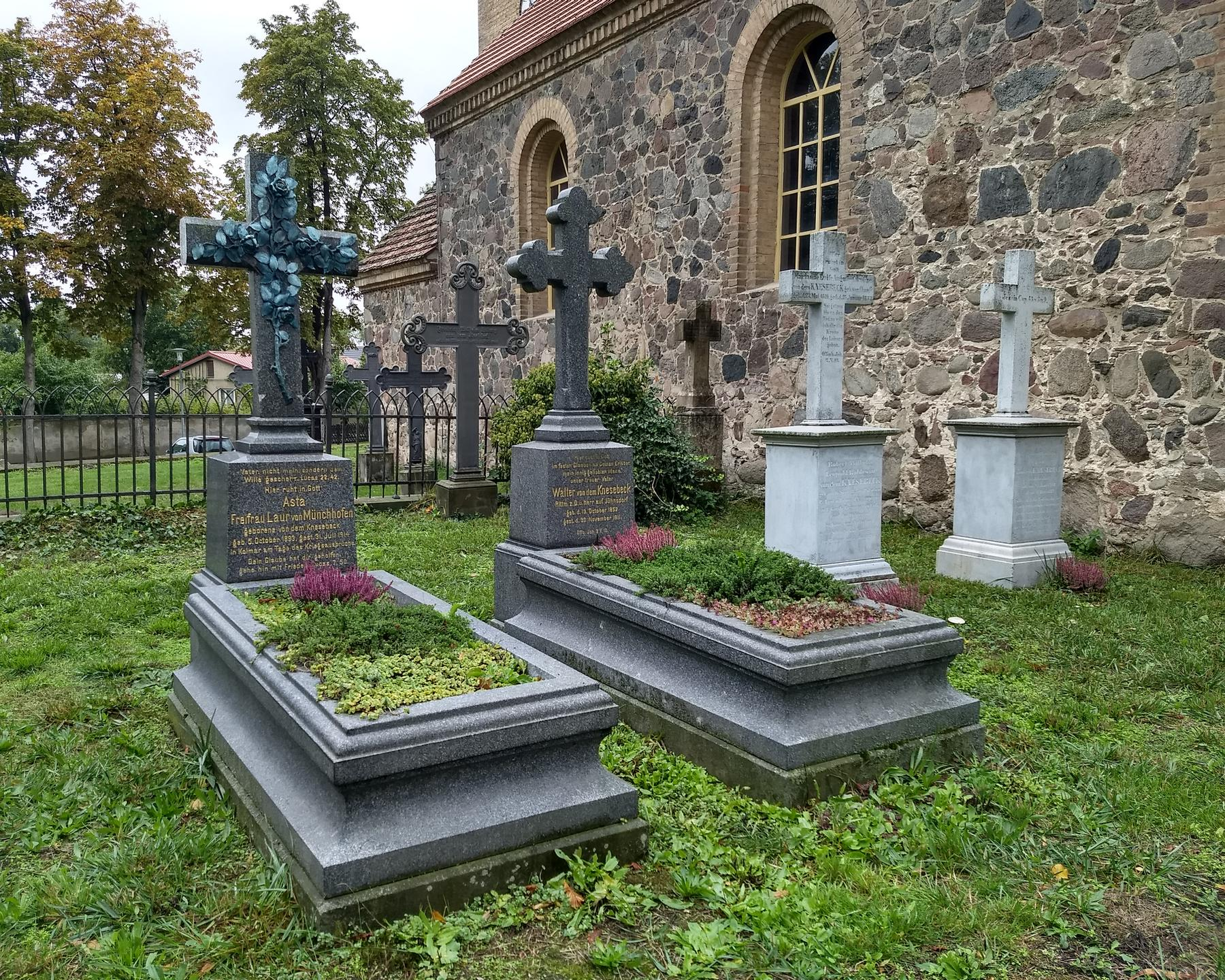 Graves of the House of Knesebeck in Jühnsdorf (municipality Blankenfelde-Mahlow) in Brandenburg, Germany